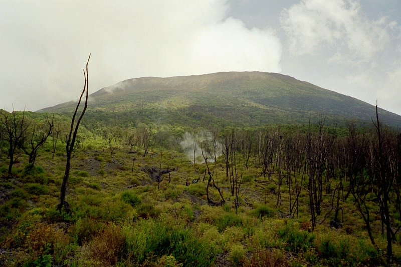 The Stratovolcano Nyiragongo in the Democratic Republic of Congo.